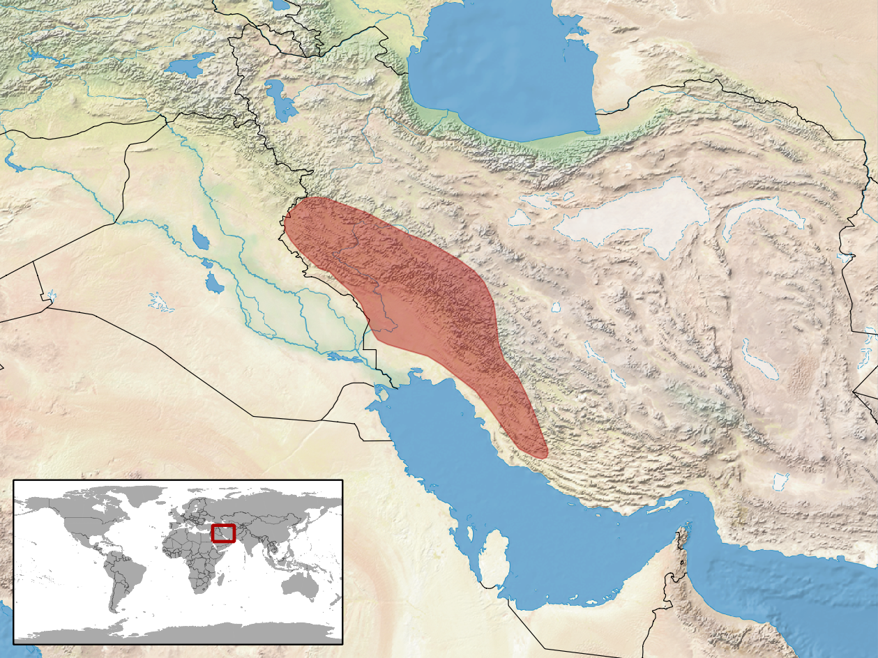 geographic distribution of Microgecko helenae syn. Tropiocolotes helenae (Native: Iran, Islamic Republic of)